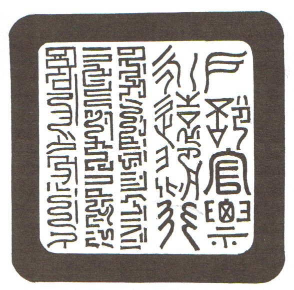 The Hubu Guanpiao (Traditional